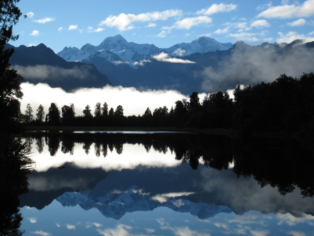 Mt. Cook, Mt. Tasman and Fox Glacier reflected in Lake Matheson